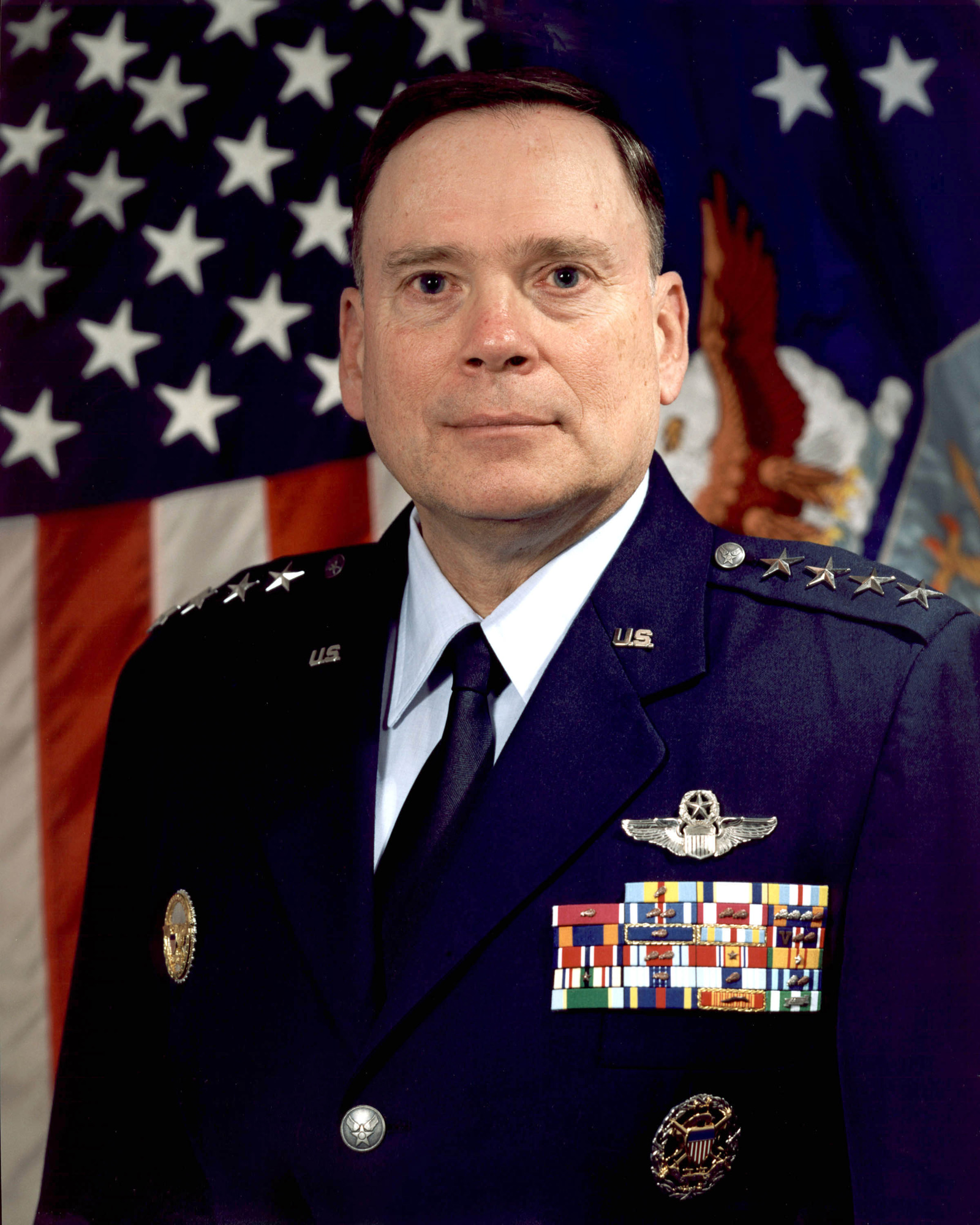 General John P. Jumper, Chief of Staff of the U.S. Air Force 2001–2005